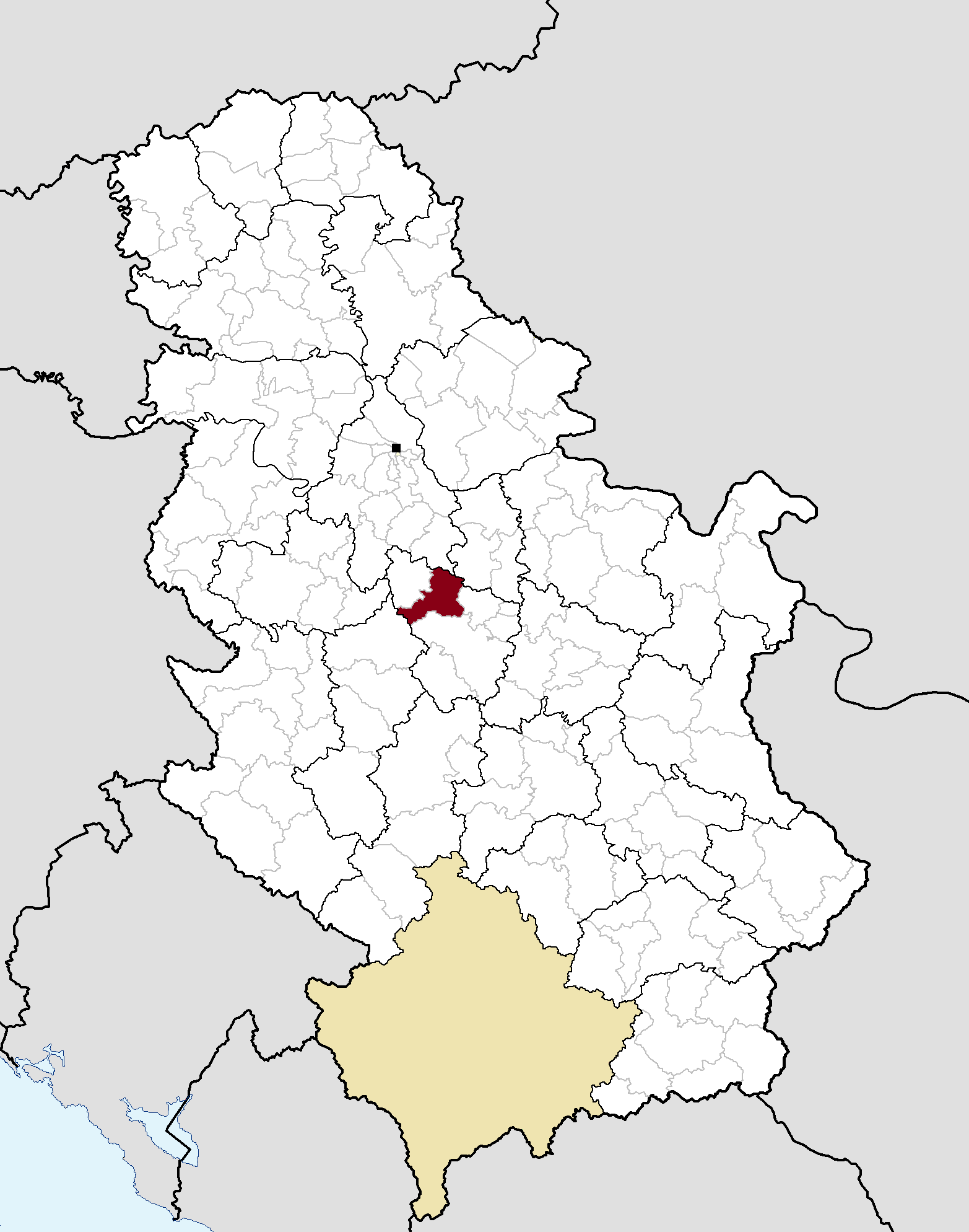 Municipal location in Serbia